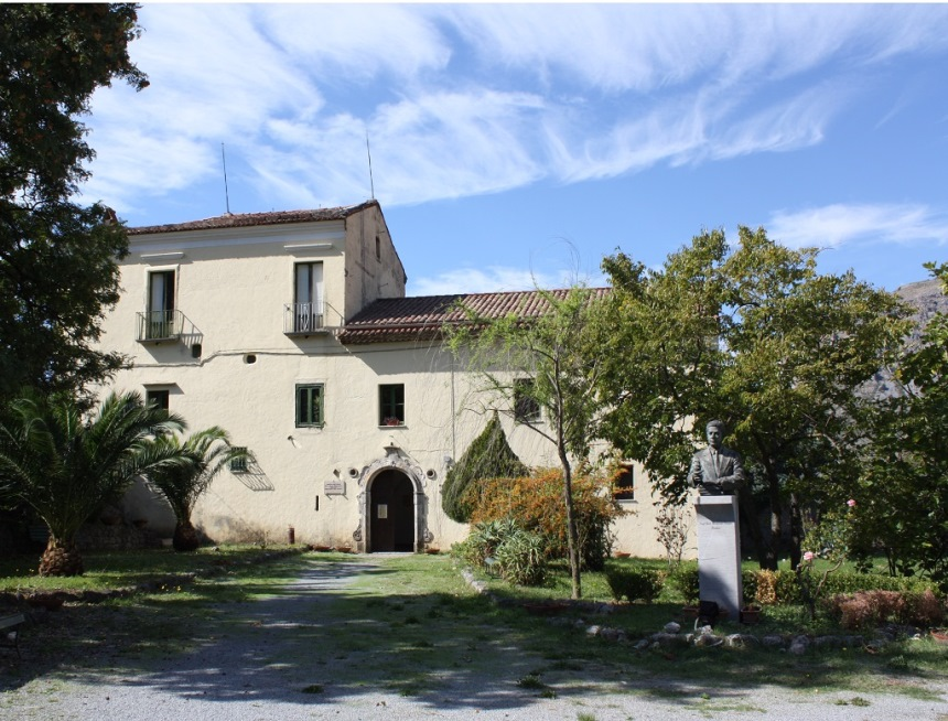 Maratea's library.